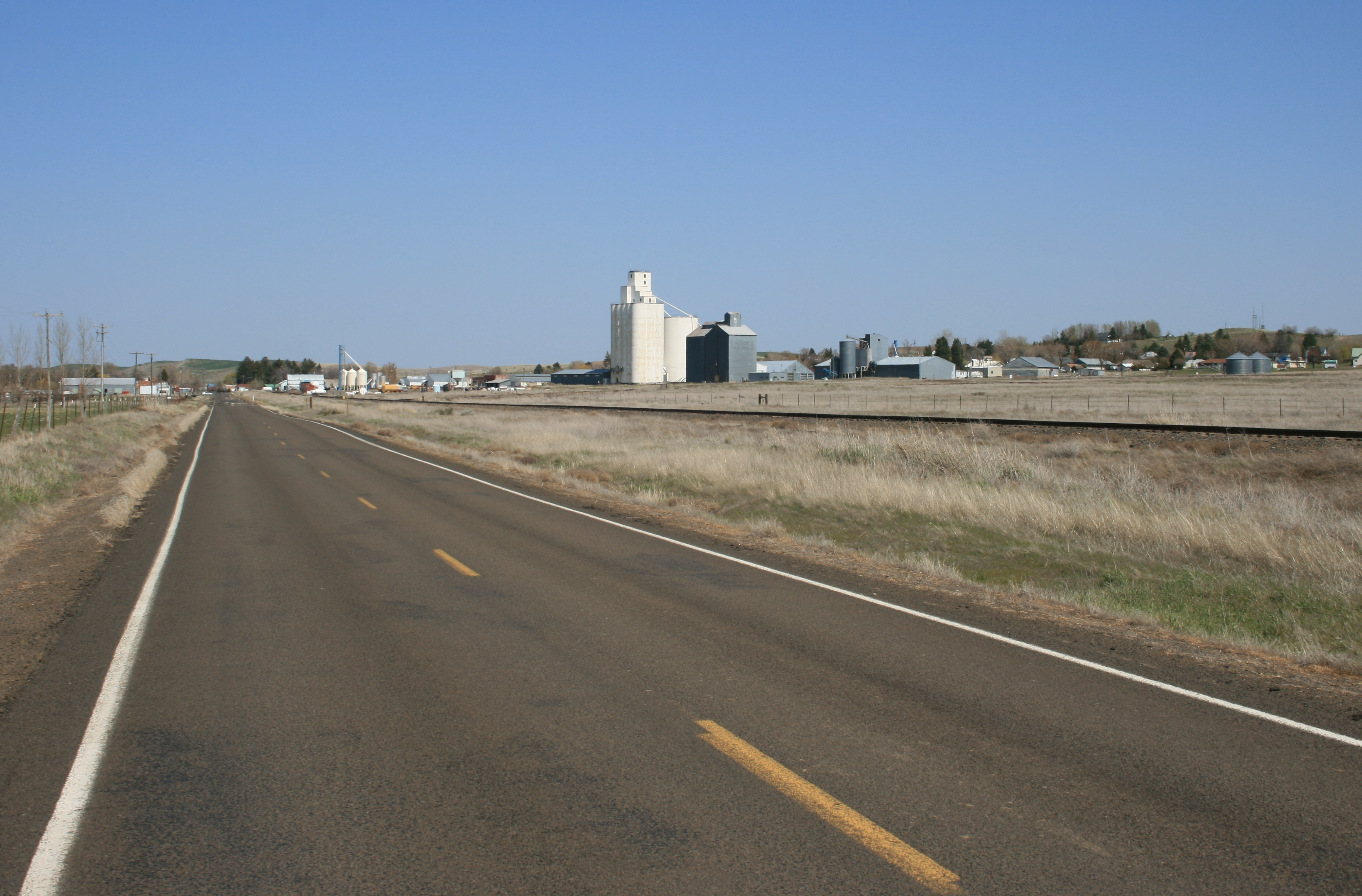 Photo of La Crosse, Washington taken in April 2008